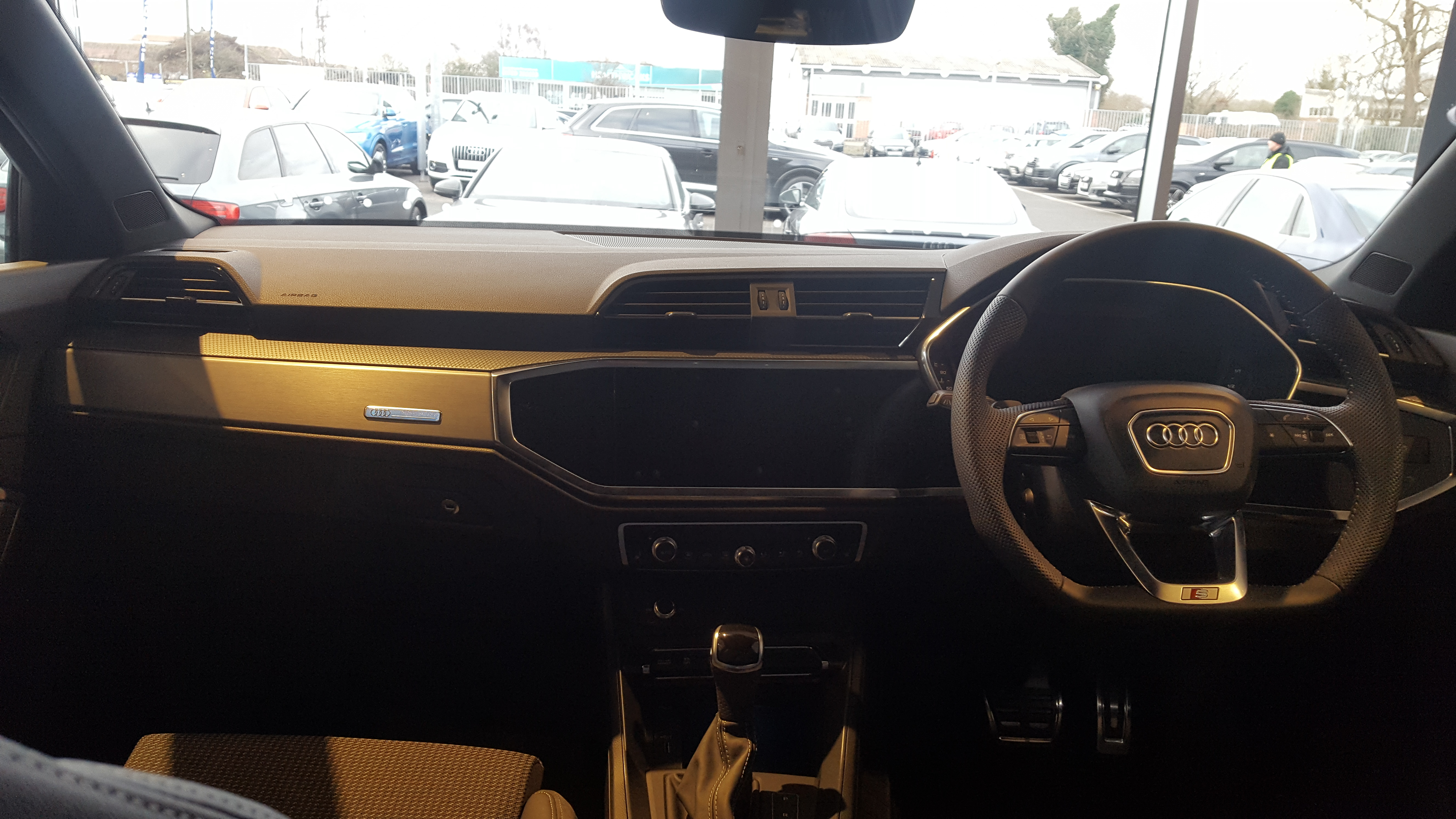 2019 Audi Q3 TFSi 35 Interior Taken in Stratford-upon-Avon